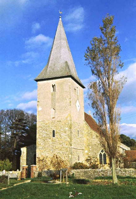 Bosham Church. A closer view of the church of Holy Trinity showing its unusual (Saxon) spire.